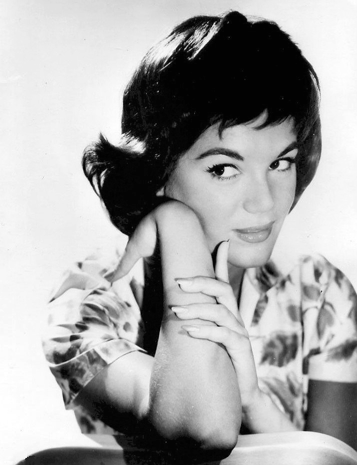 Photo of Connie Francis from her first television special in 1961.